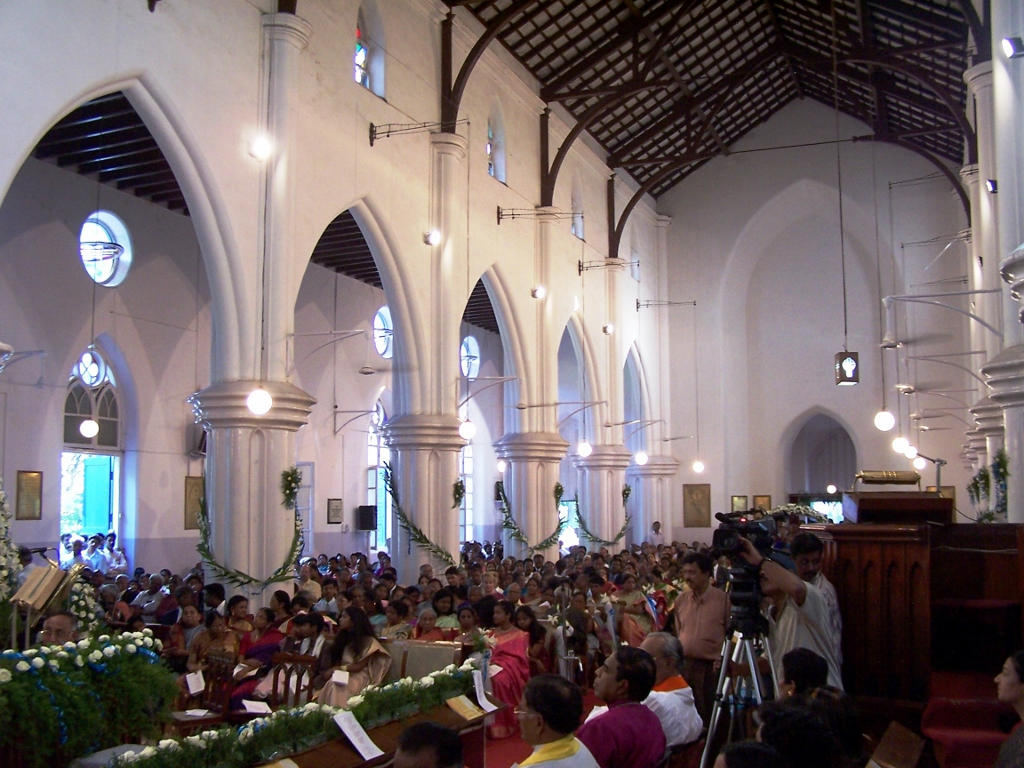 Interiors of the St. Andrew's Church, Bangalore